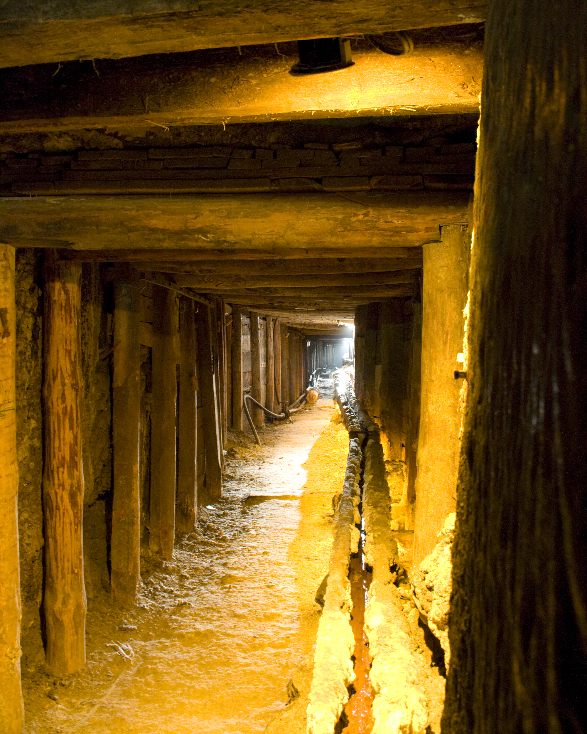 Wieliczka Salt mine tunnel